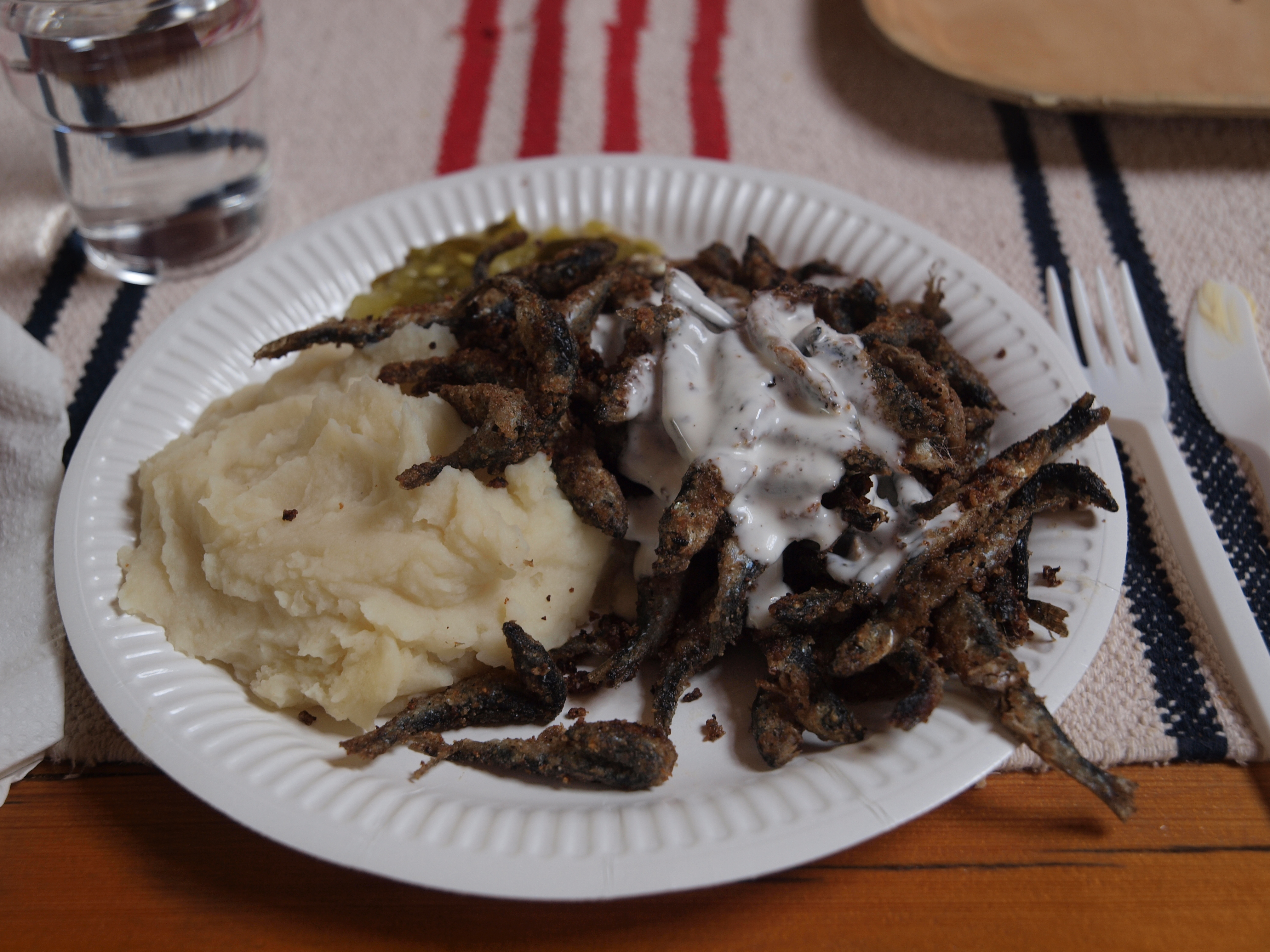 A plate of fried vendace (Coregonus albula) with mashed potatoes, garlic sauce and cucumber relish, along with a glass of water, served at some Lappish restaurant so small it doesn't even have a name, somewhere in northwestern Lapland, Finland.